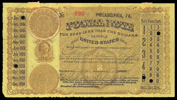 Homer Lee Bank Note Co. Postal Note, Philadelphia 7 Sept 1883, Martin type PN1.